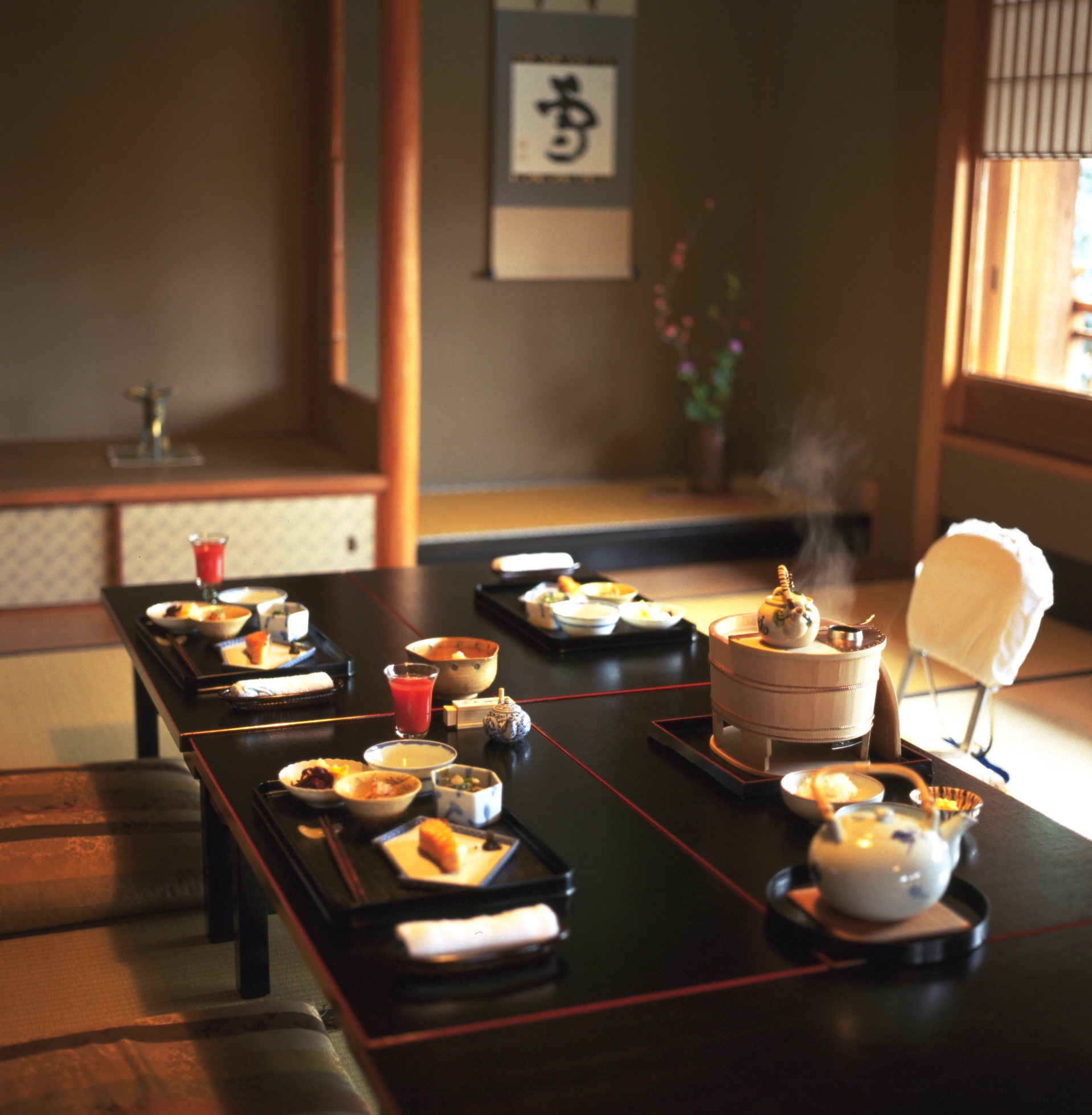 Breakfast (Kyoto)